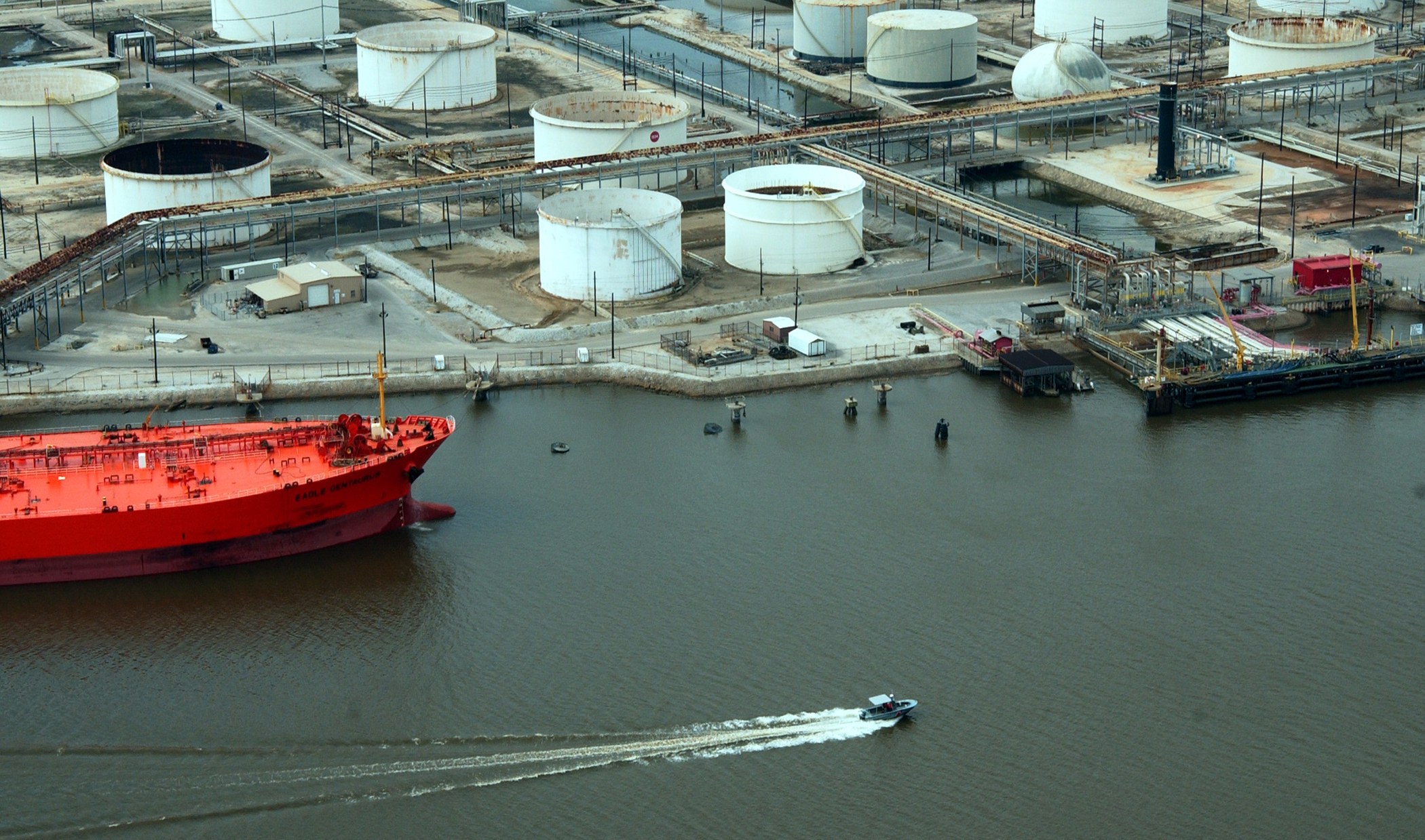 HOUSTON, Tex. (March 25, 2003)--A U.S. Coast Guard small boat, from Station Sabine Pass, Texas, conducts a harbor patrol in the port of Beaumont on March 25. USCG photo by PA3 Andrew Kendrick